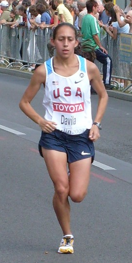 Desiree Davila during marathon race at 12th World Championships in Athletics Berlin 2009